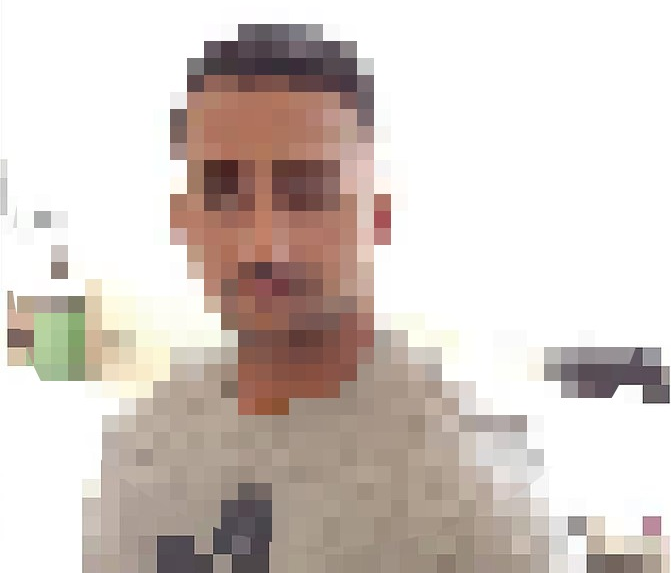 Photo with a complete pixelation